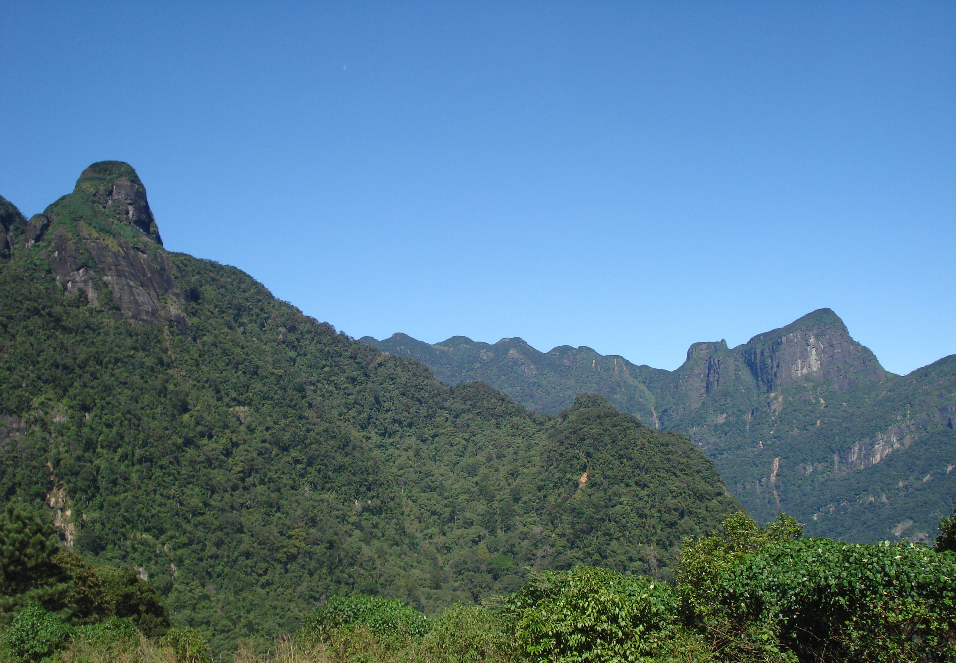 A view of the Knuckles mountain range, Sri Lankaසිංහල: දුම්බර කඳුවැටිය